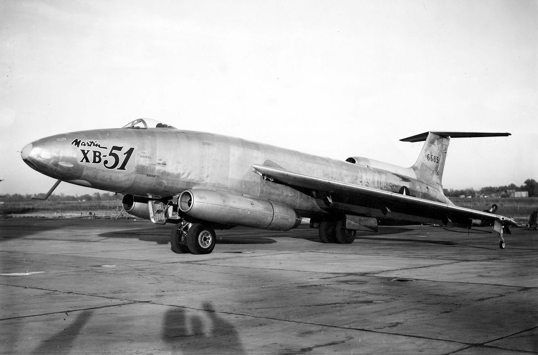 Martin XB-51 (SN 46-685)